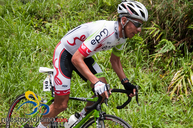 Giovanni Báez, rider of the colombian team EPM-UNE